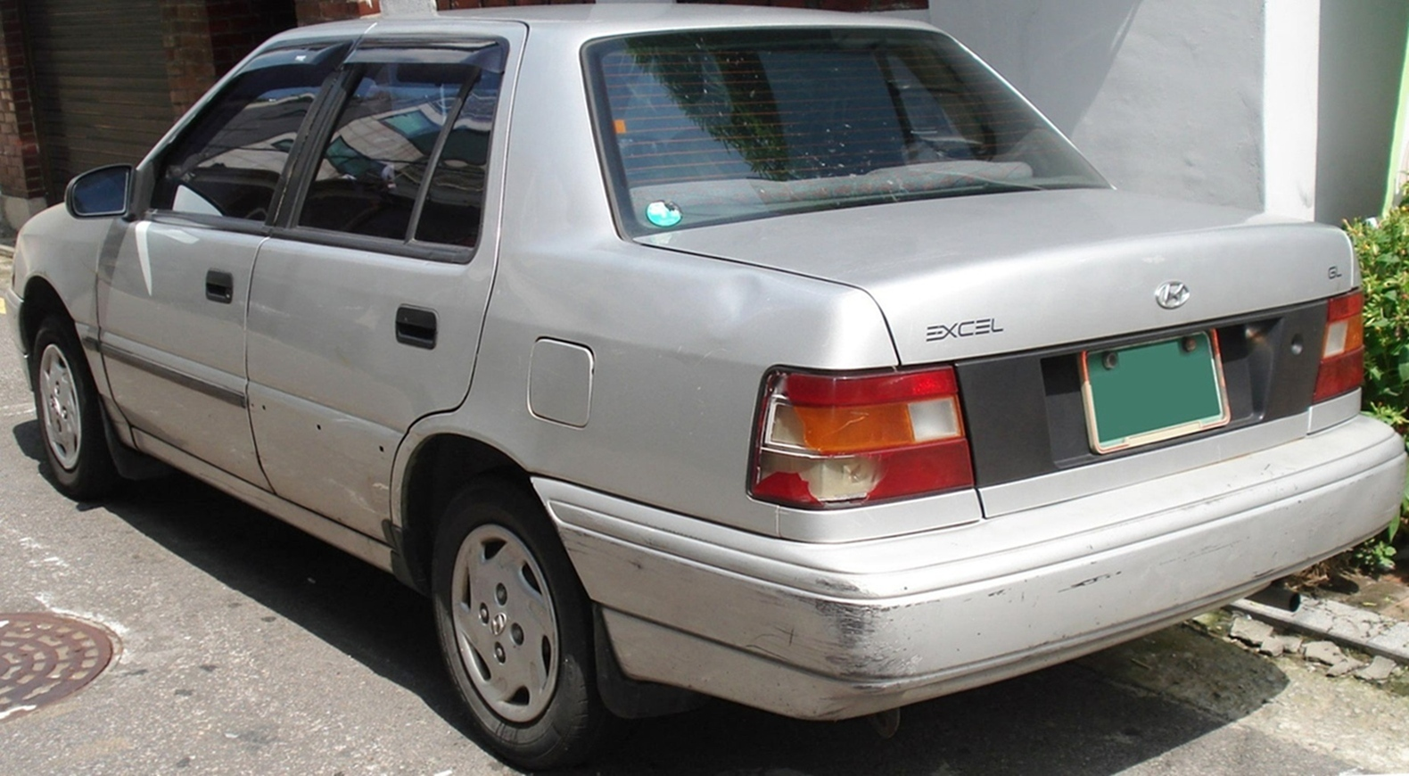 Hyundai New Excel